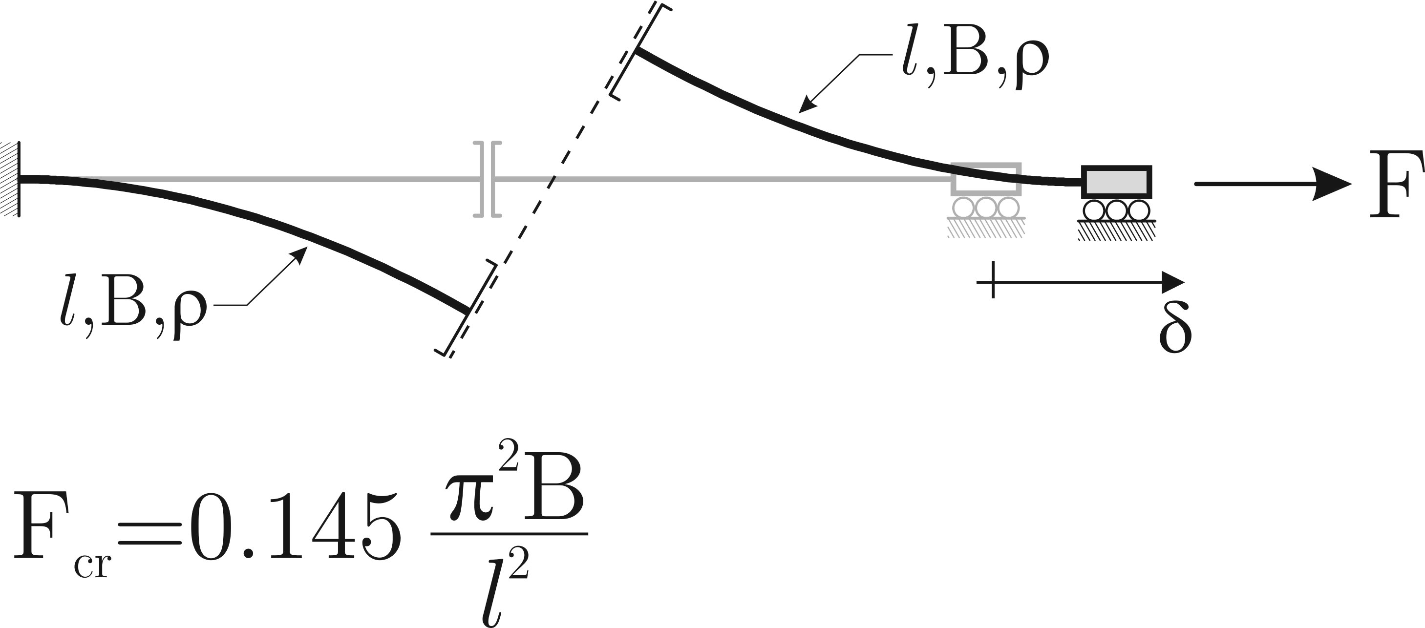 Elastic beam system showing buckling under tensile dead loading.